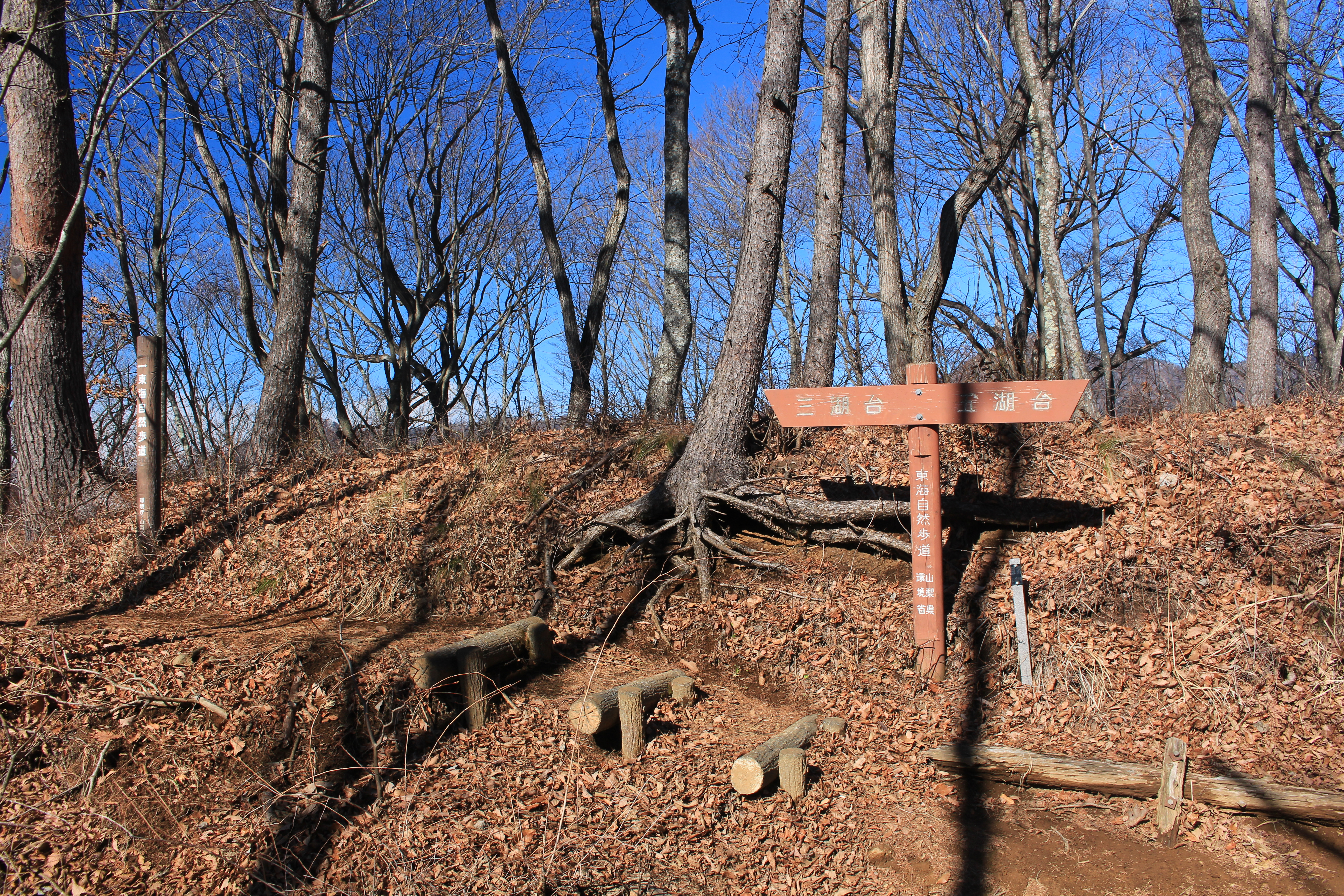 Tōkai Nature Trail on Mount Ashiwada, Narusawa, Yamanashi Prefecture, Japan.